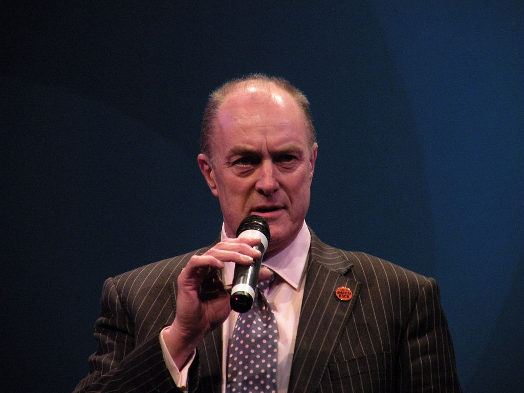 Gordon Birtwistle, addressing a Liberal Democrat conference in the International Convention Centre, Birmingham in March 2010, 2 months before being elected MP for Burnley.